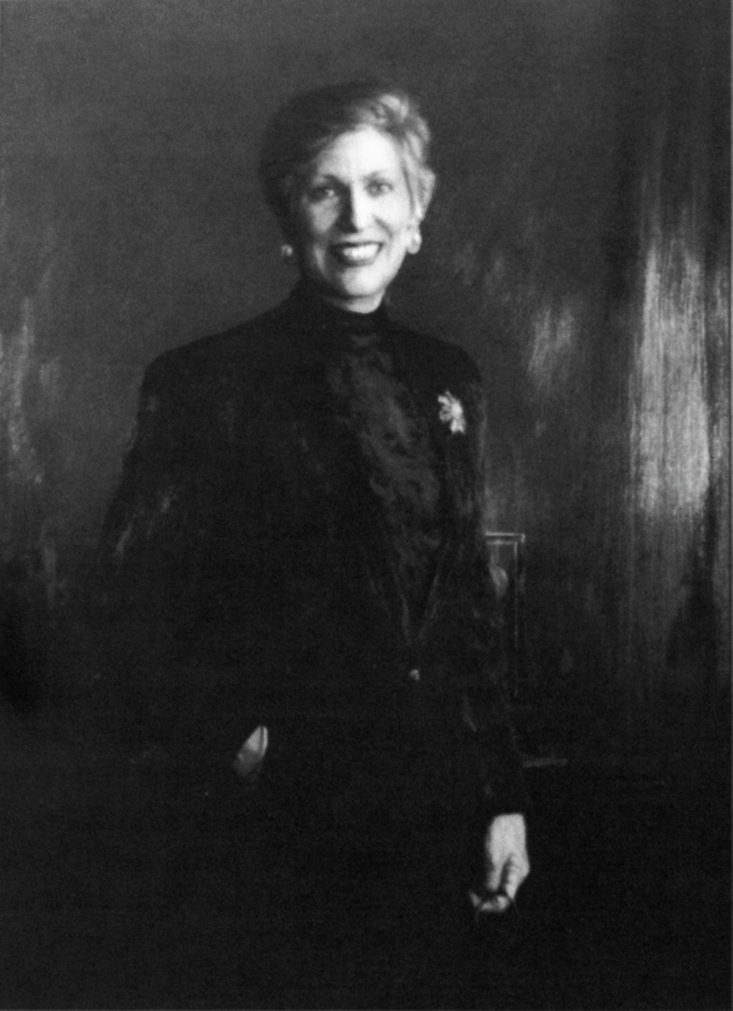 Barbara Hackman Franklin, U. S. Secretary of Commerce Source: NOAA Photo Library